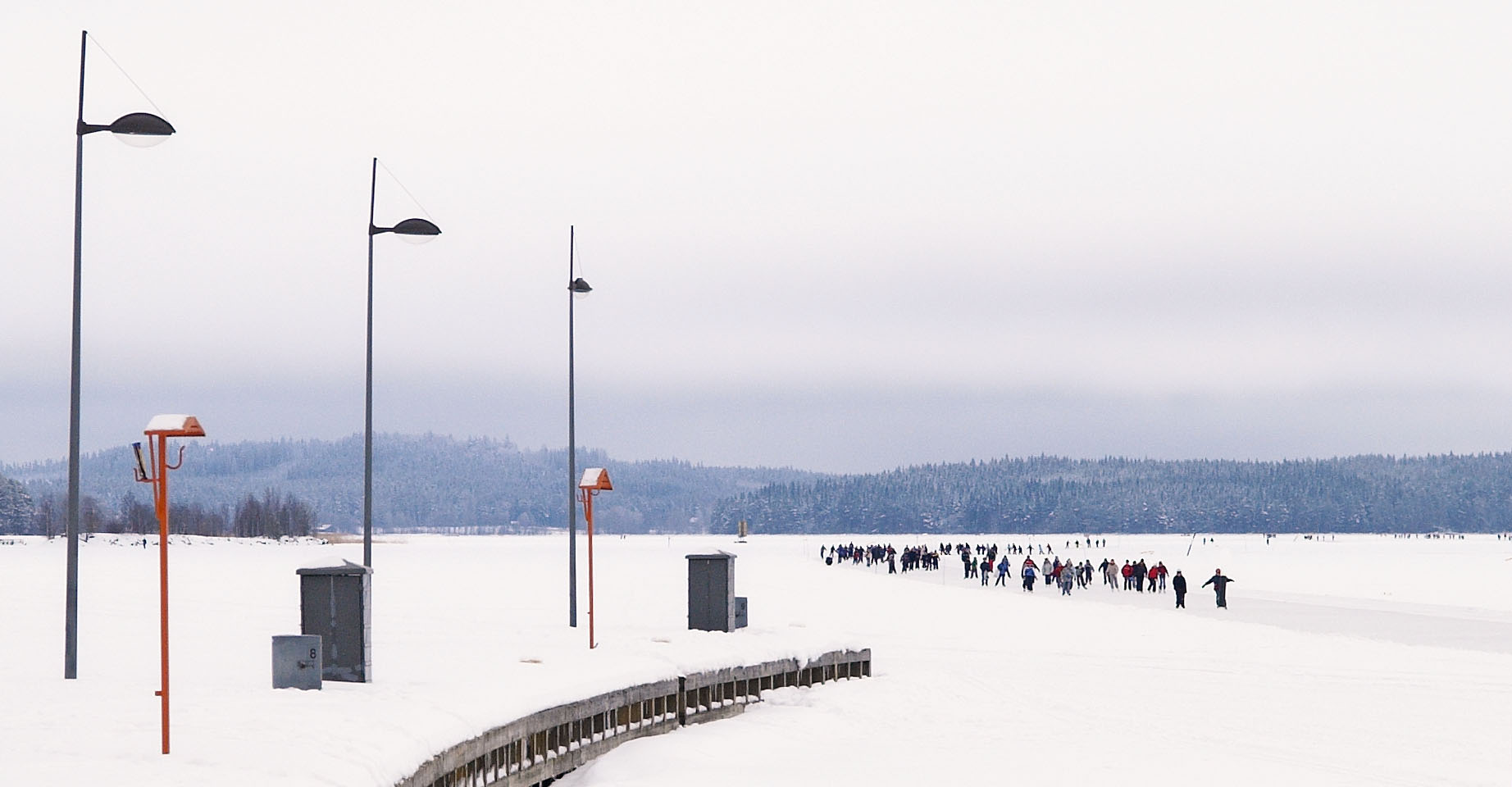 Finland Ice Marathon 2006 at Kuopio Harbour on Lake Kallavesi in Kuopio, Finland.